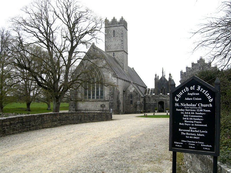 Augustinian Friary, Adare, now St. Nicholas (Church of Ireland)